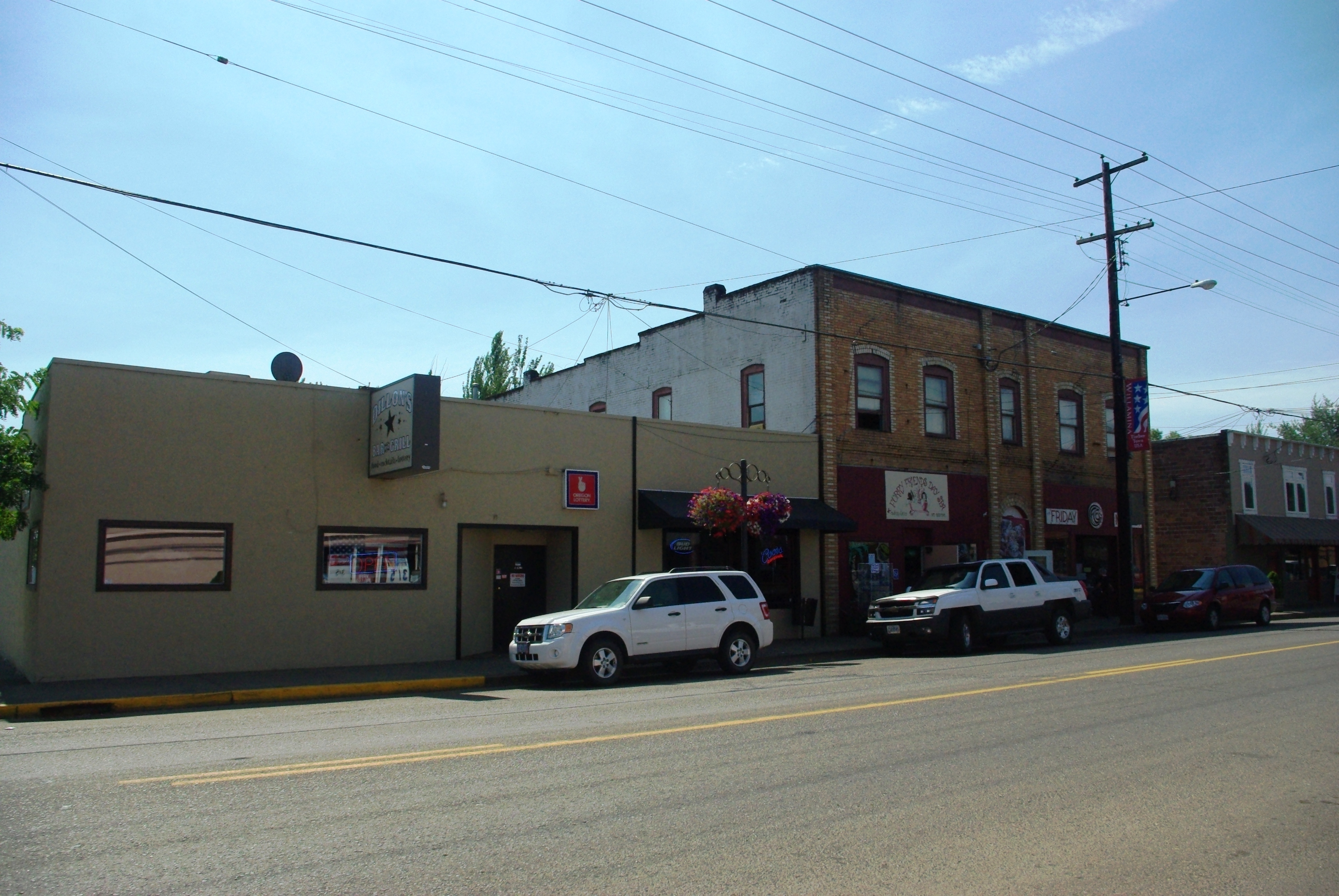 Downtown in Willamina, Oregon, street is Oregon Route 18 Business.